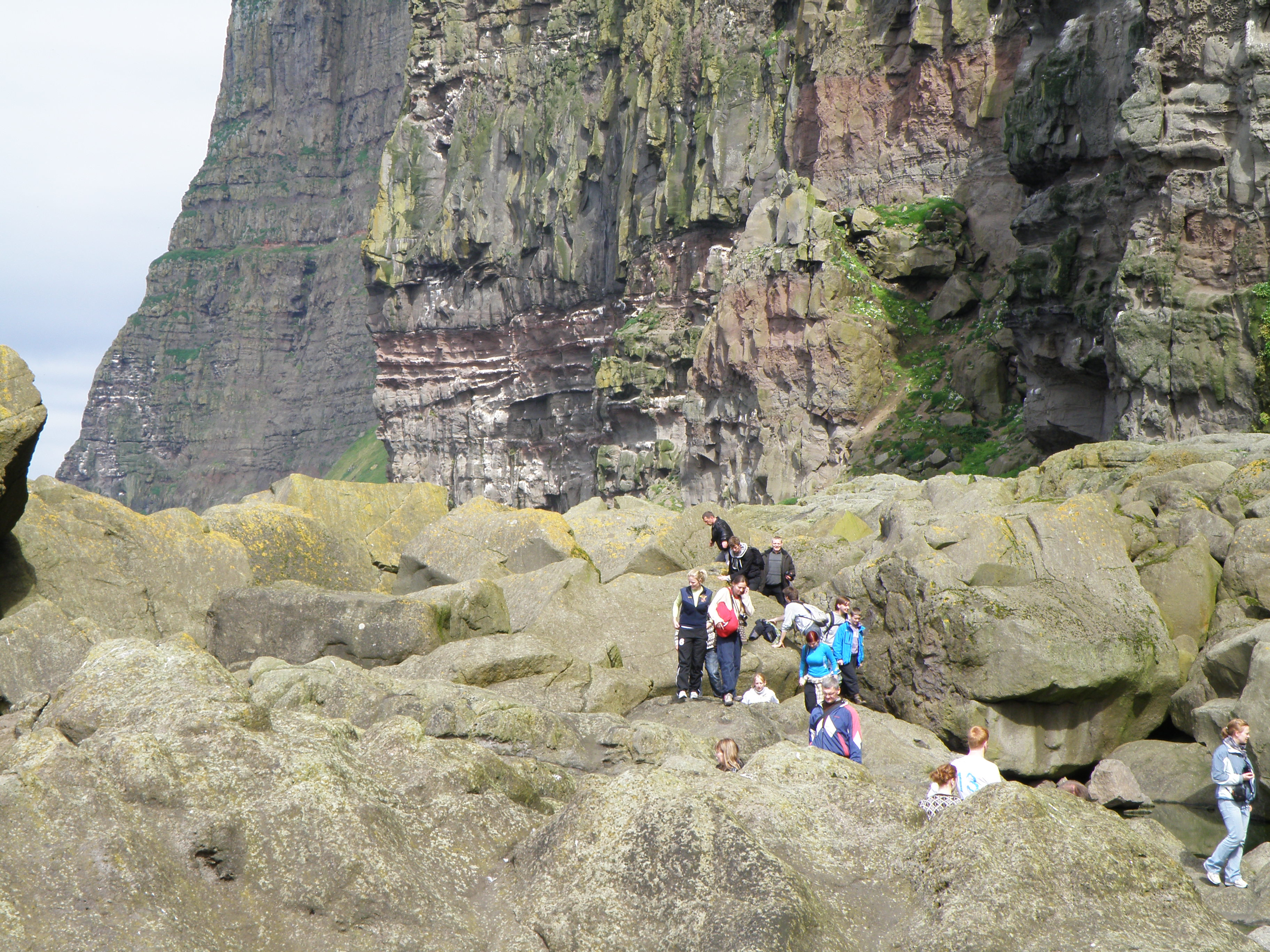 Stóra Dímun, also called just Dímun, is one of the smallest of the inhabited islands of the Faroes. The island is 2,65 km2 and 395 m high. The village is located 100 meters above sea level. In 2014 the population was 9. A school has been built there for the children who lives there, three teachers from a school in Tórshavn travel to the island one each time, in order to teach the children. The helicopter is the only option if one wants to travel to the island, except if it is only a short trip, then it can be done with Norðlýsið from Tórshavn or the schooner Thorshavn from the island Suðuroy.